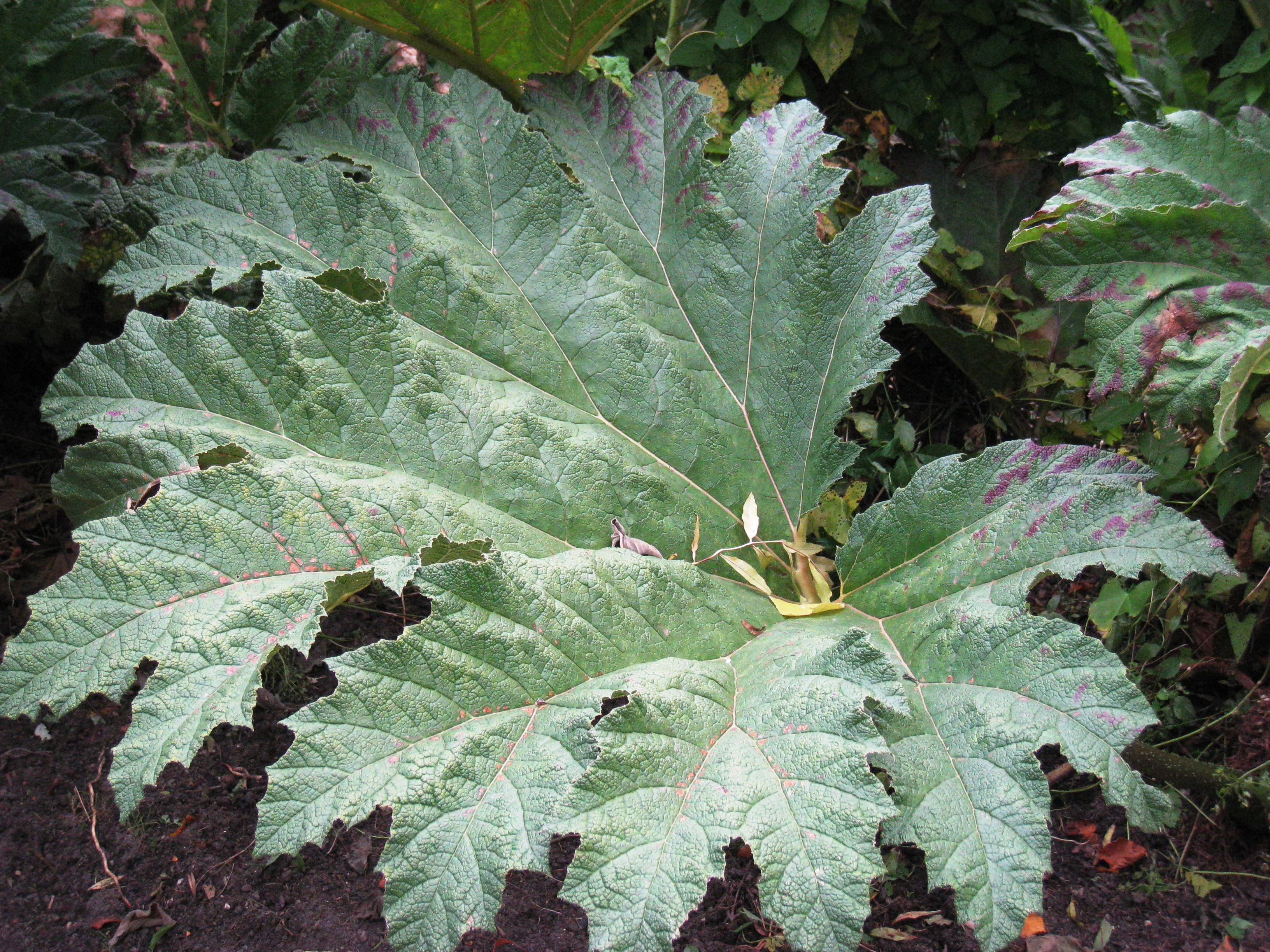 Specimen in cultivation at the Botanical Garden, University of Copenhagen, Denmark.